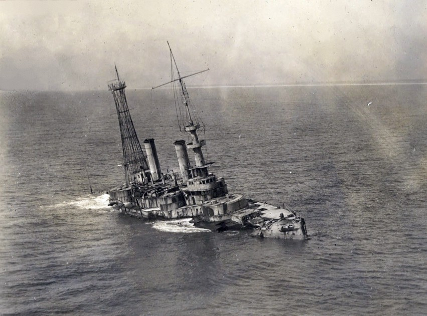 The former U.S. Navy battleship USS Massachusetts (BB-2) sinking in he waters off Pensacola, Florida (USA), after being scuttled, 6 January 1921.